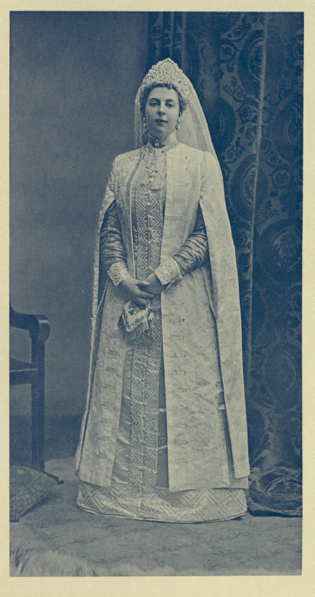 Princess Maria Constantinovna Beloselskaya-Belozerskaya